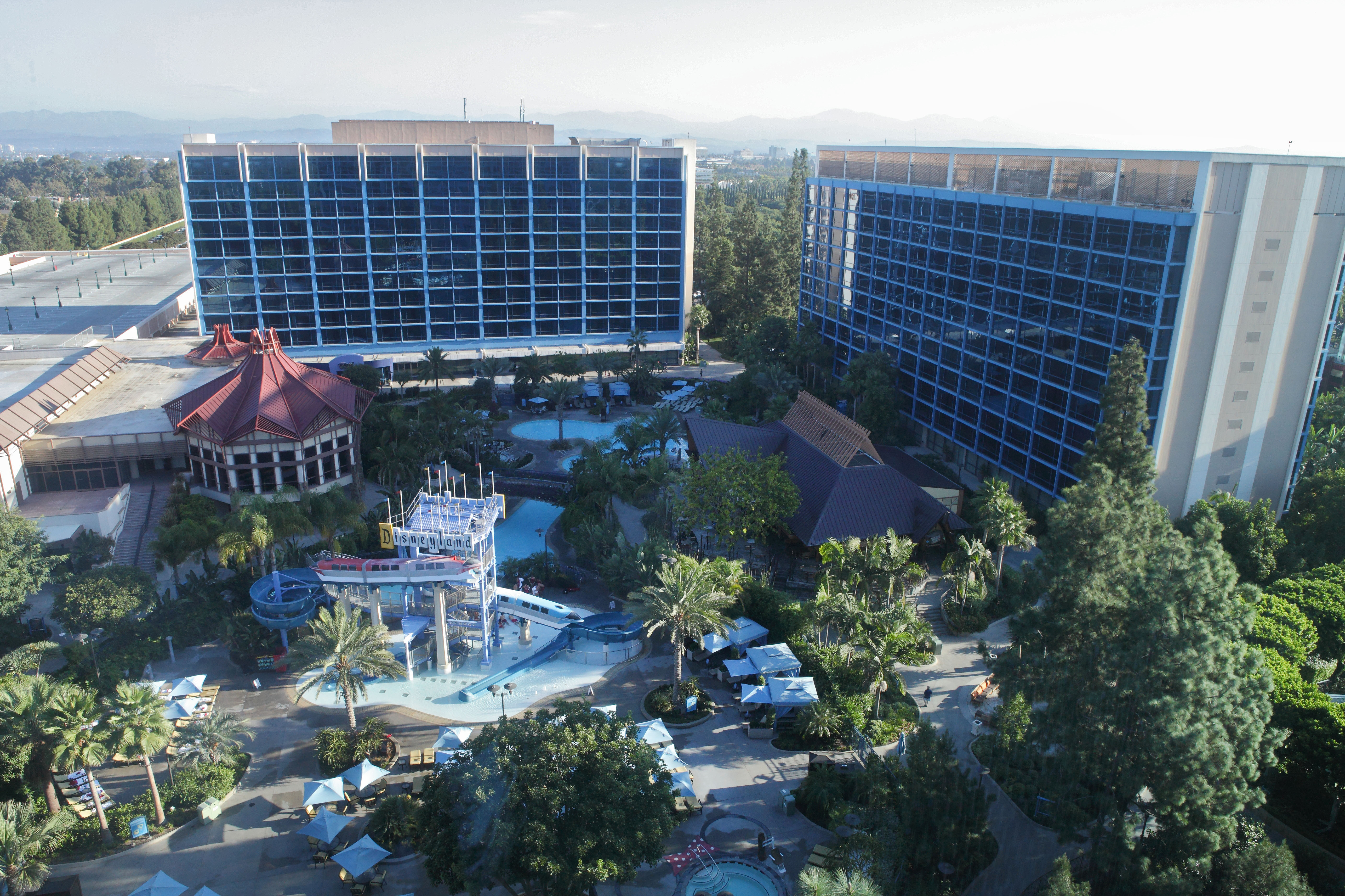 A 2013 photo of the Disneyland Hotel taken from the 12th floor of one of the frontier tower.